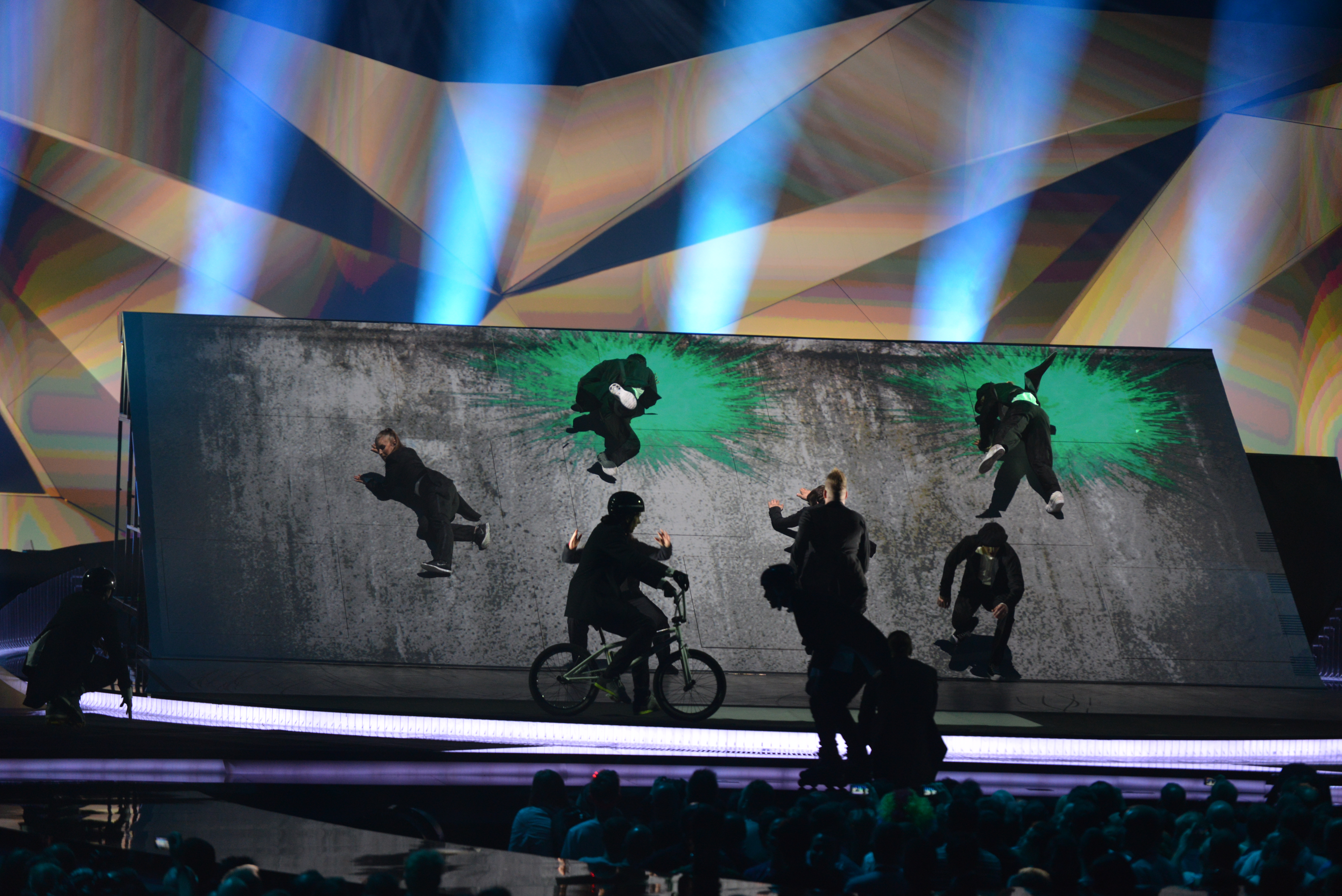 The opening act of the second semi final, during the second dress rehearsal in the Eurovision Song Contest 2013 in Malmö. (Help translate this text)